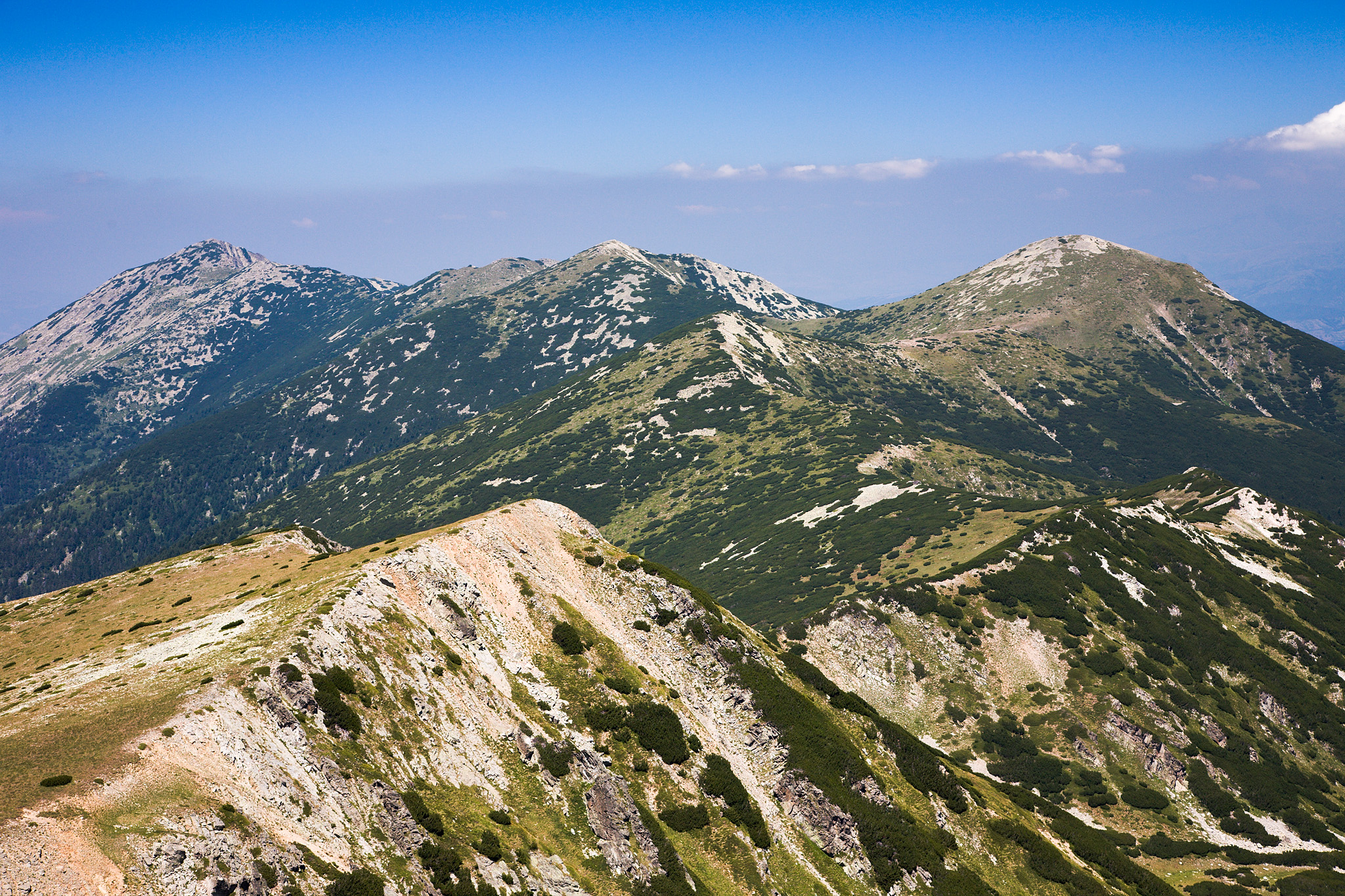 The main ridge of North Pirin up to the Pirin summit, picture taken from Albutin summit